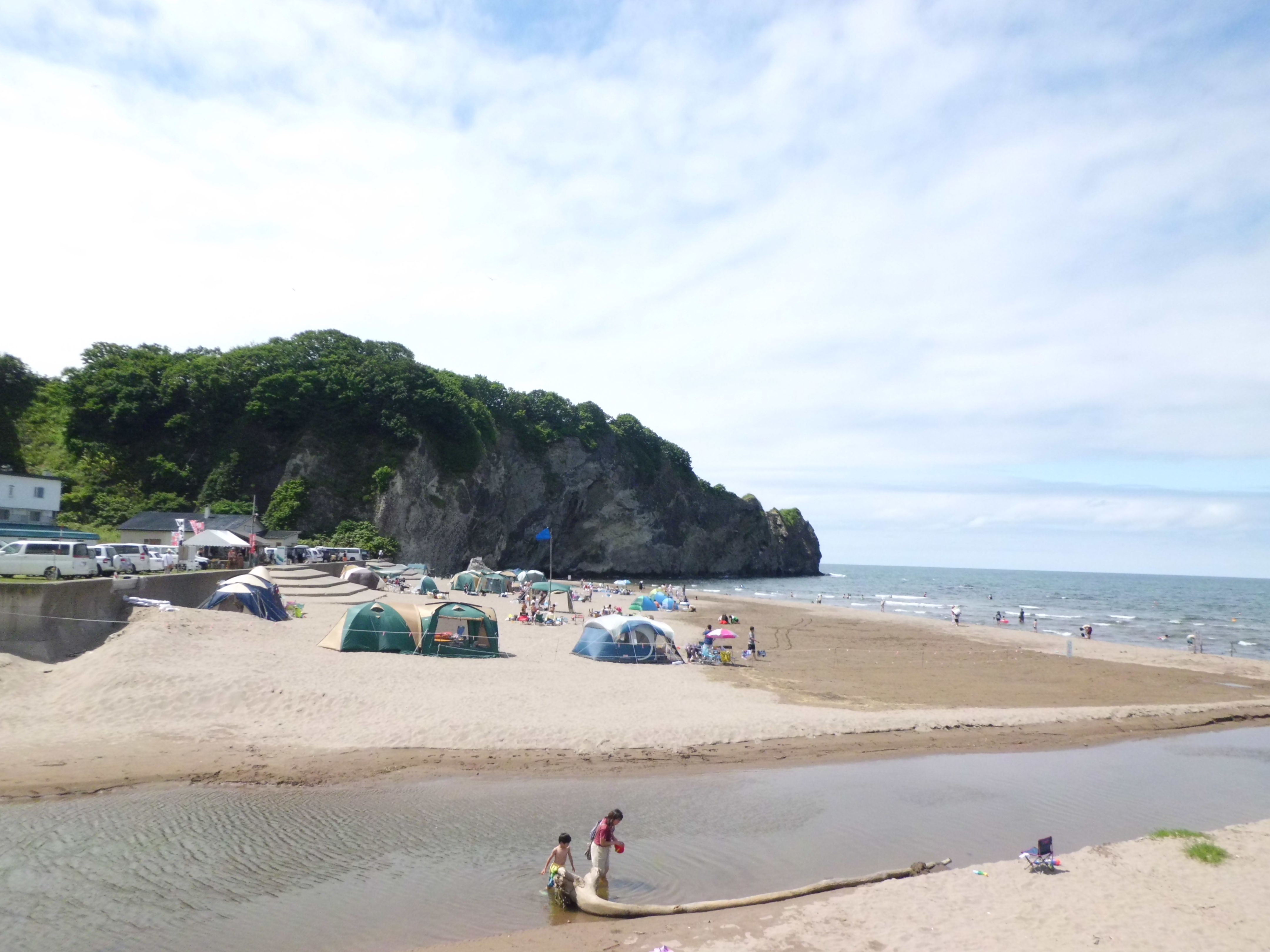 Sun River beach in Otaru city, Hokkaido, Japan.